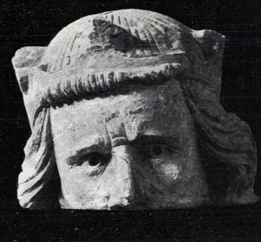 Head from the Nidaros Cathedral, possibly a lifelike representation of Haakon V Magnusson of Norway; cited in Helle, Knut (1995). Under kirke og kongemakt: 1130-1350, p. 209.